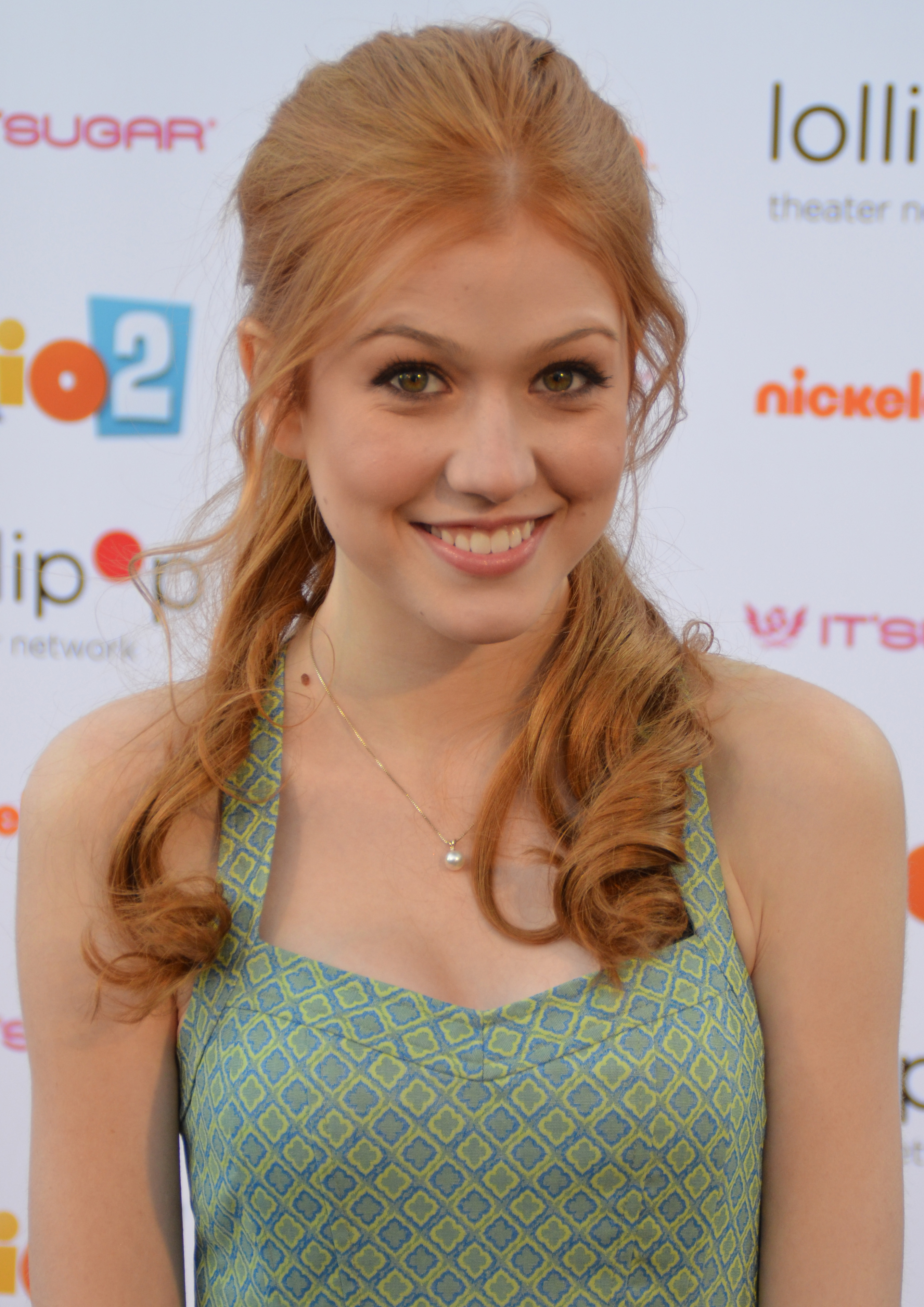 Mingle Media TV and Red Carpet Report host Kristina Rivera were invited to cover the Lollipop Theater Network’s Night Under The Stars hosted by Anne Hathaway featuring a screening of Rio2 at Nickelodeon studios in Burbank, CA. Follow our host Kristina on Twitter at